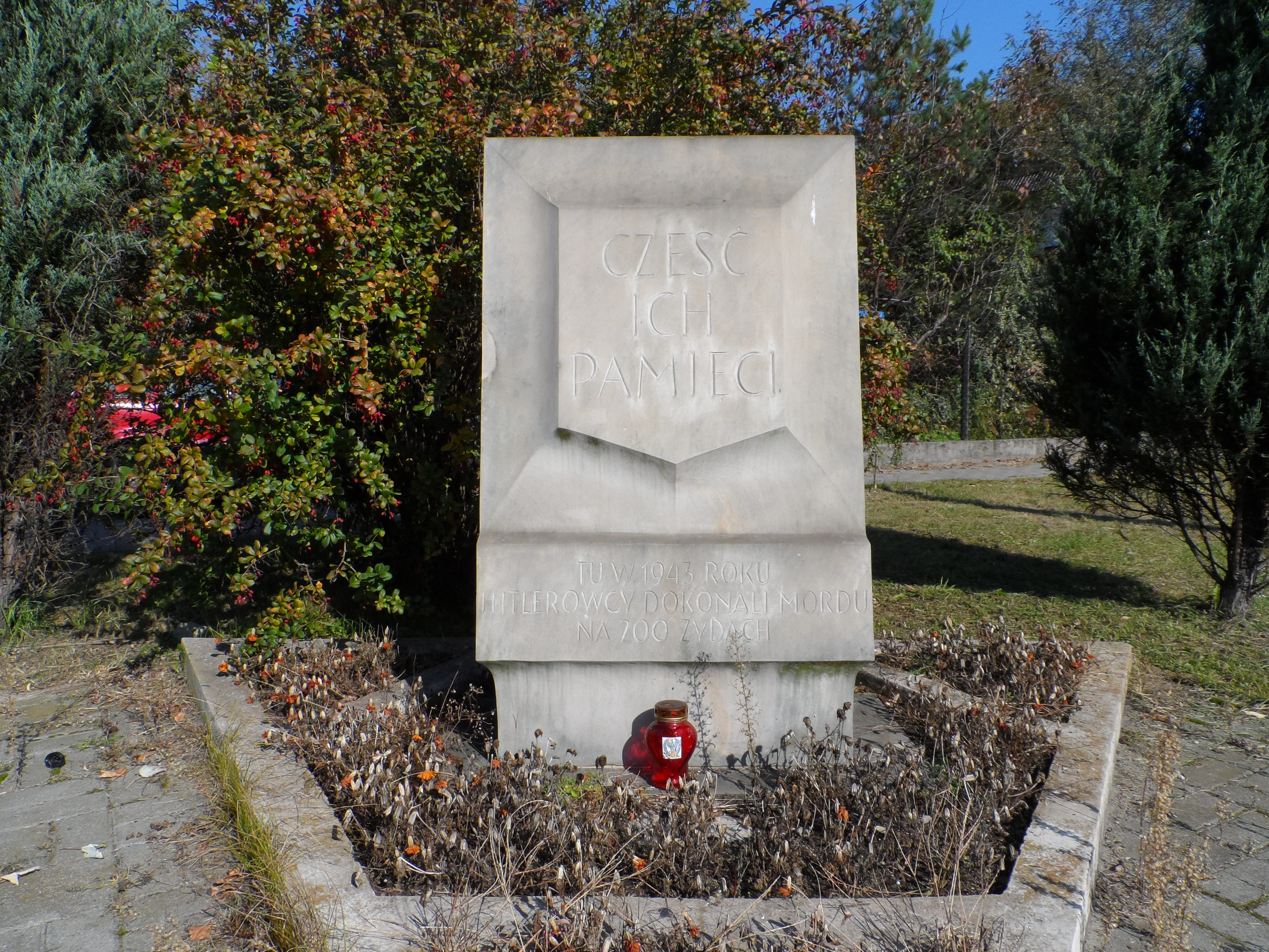 Plaque at the corner of Markietanki Street and Cyrulików Street in Warsaw, commemorating almost 200 Jews murdered by German occupants in 1943.